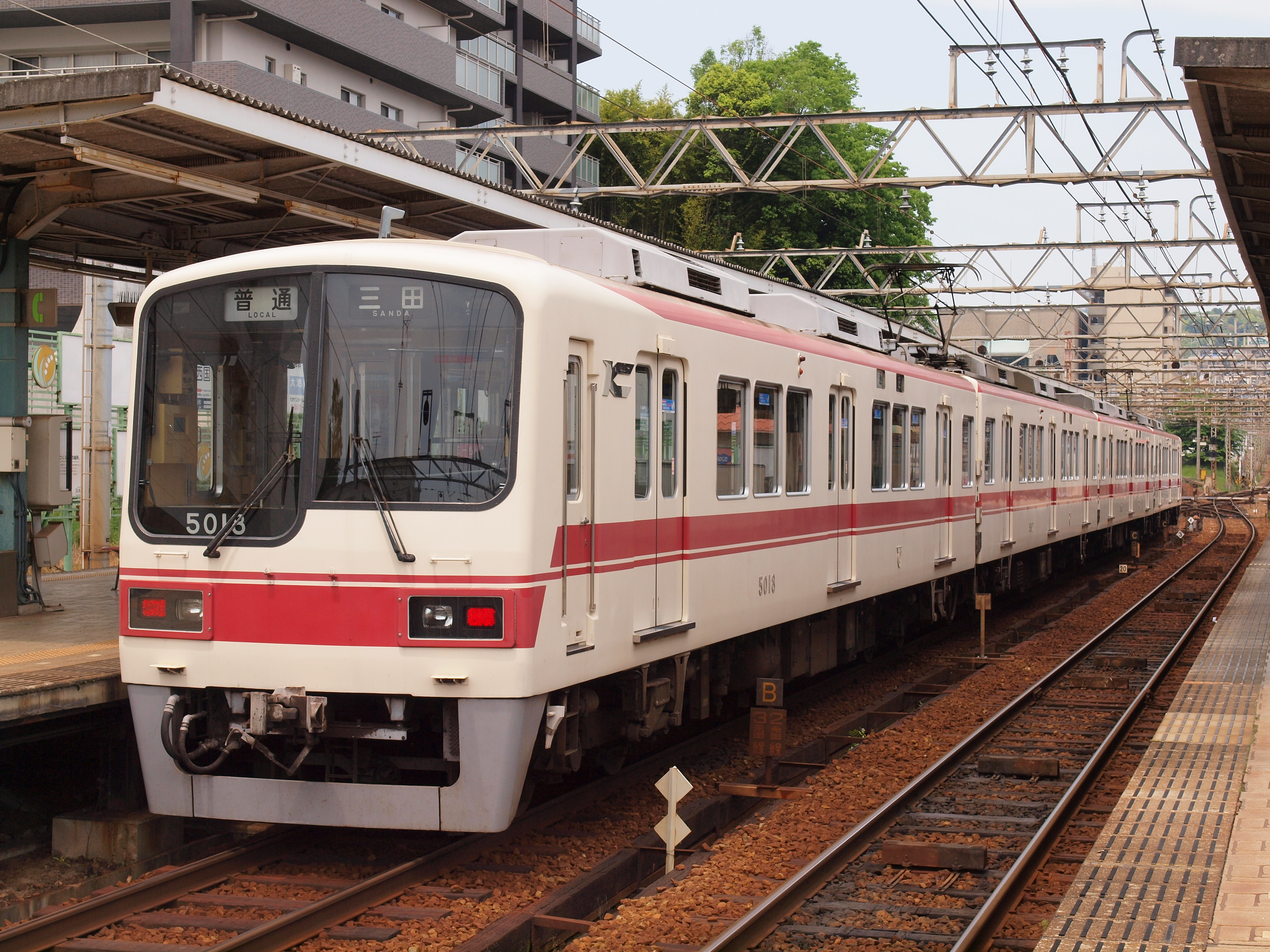 Shintetsu 5000 series EMU